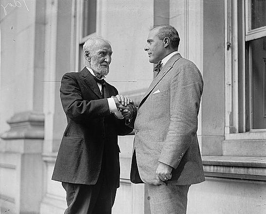 Joseph Gurney Cannon (left) and Roy Gerald Fitzgerald, a member of the United States House of Representatives from Ohio (right)